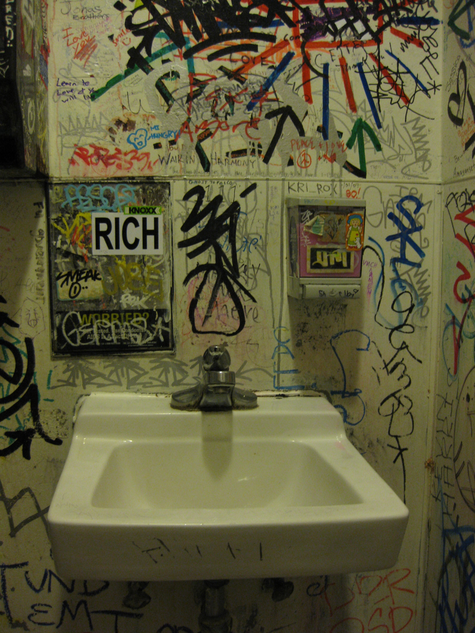 Restroom graffiti, People's Cafe, 1419 Haight Street, San Francisco, CA 94117